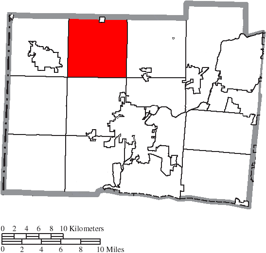 Map of the municipal and township boundaries of Butler County, Ohio, United States, as of the 2000 census, with the location of Milford Township highlighted. Township borders are shown only in unincorporated areas in order to differentiate incorporated and unincorporated areas more clearly.